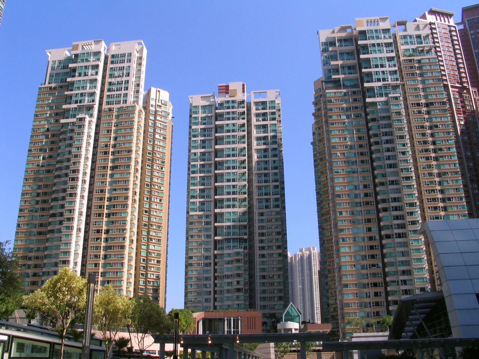 九龍站一期-漾日居 The Waterfront, Union Square Package 1